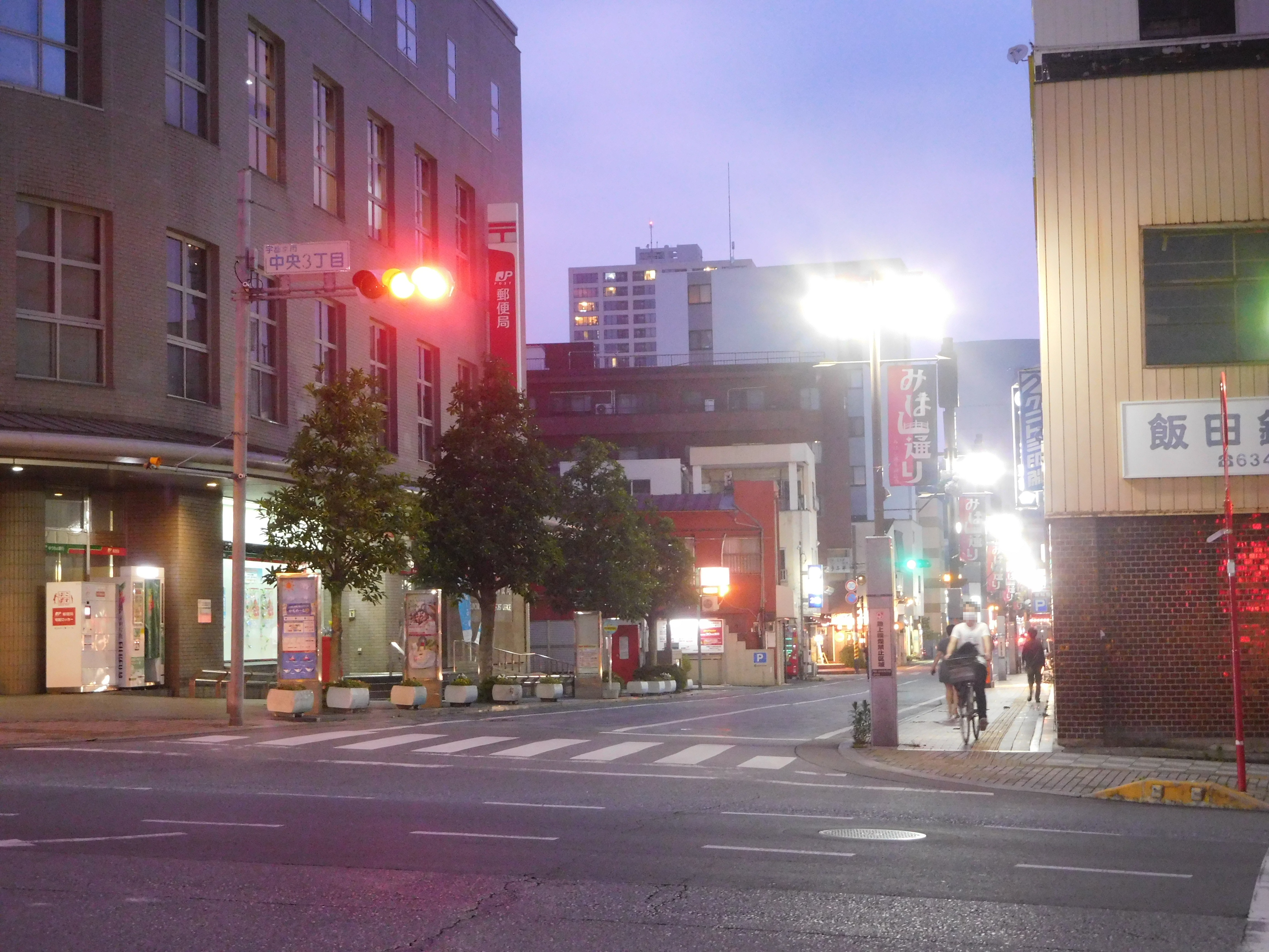 This is Chuo 3 Chome Intersection in Utsunomiya, Tochigi, Japan.